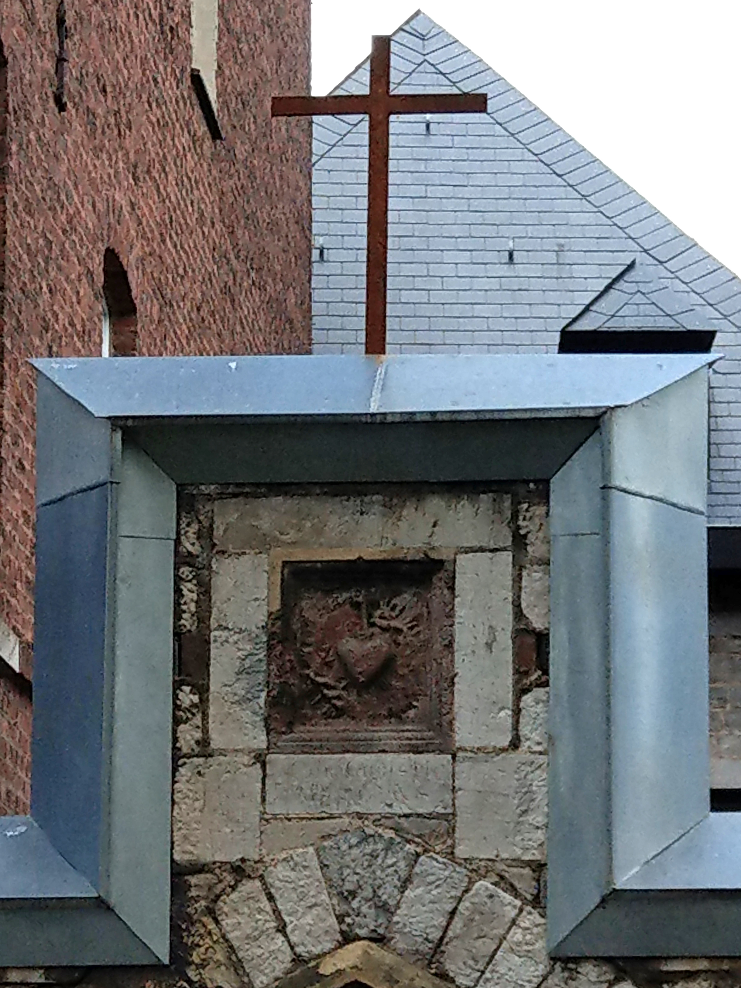 Explanations and history, see Wikimedia category